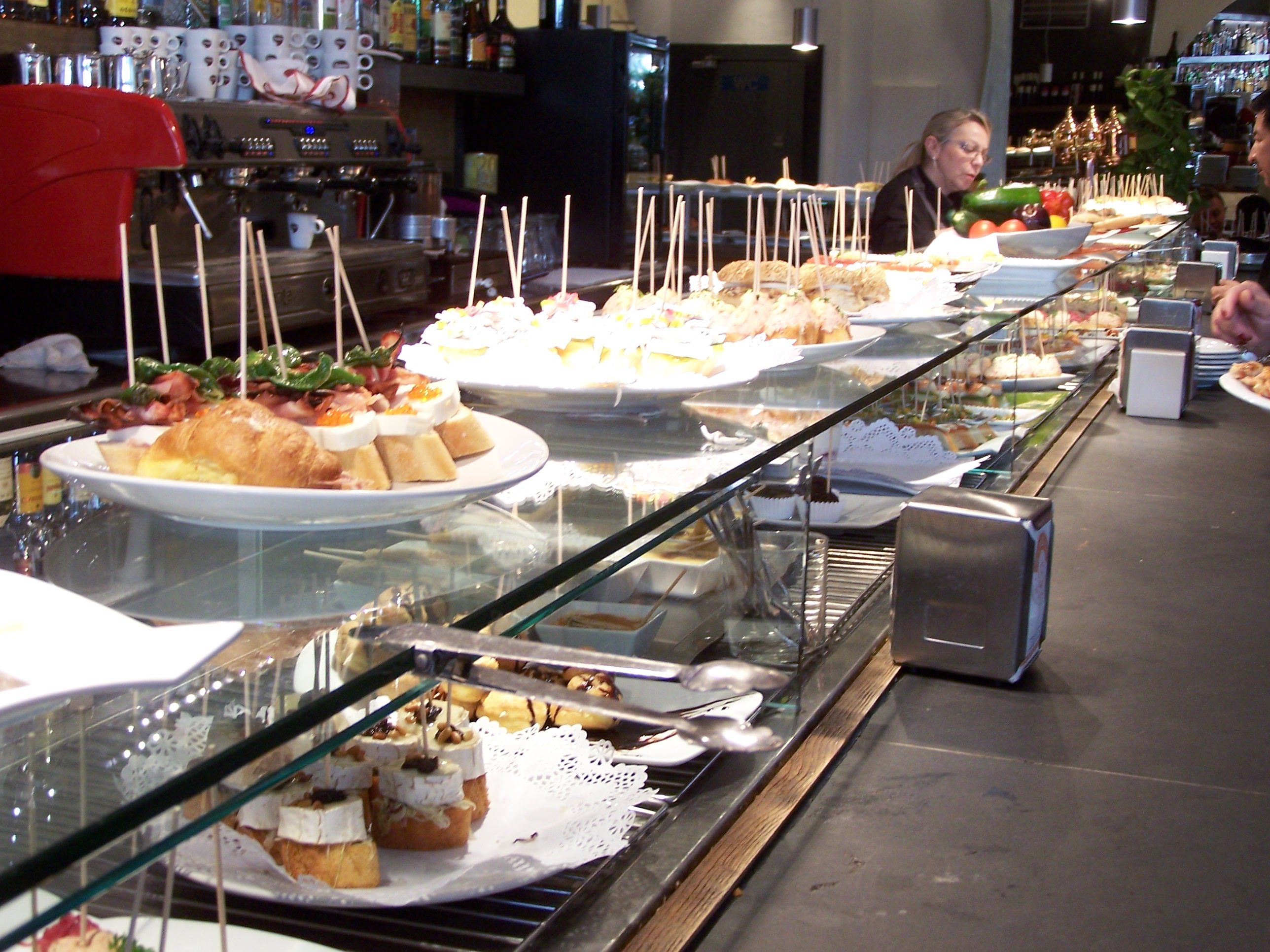 Pintxos in bar